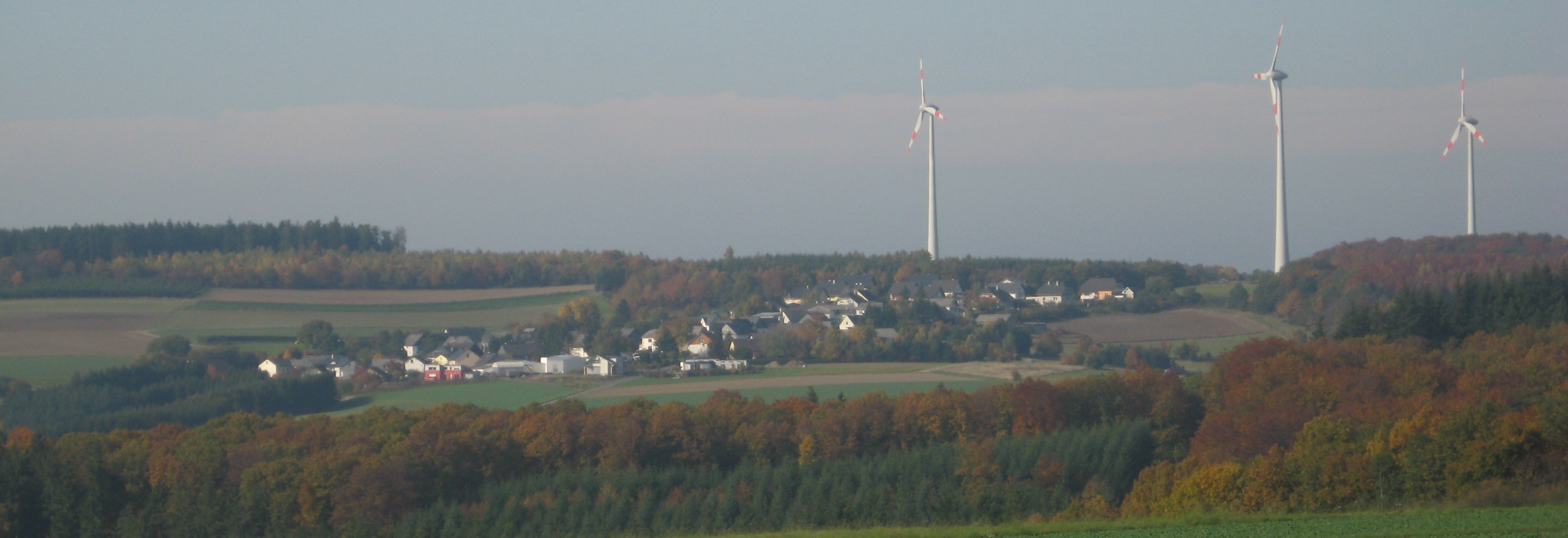 Village Schauren in the Hunsrück landscape, Germany.